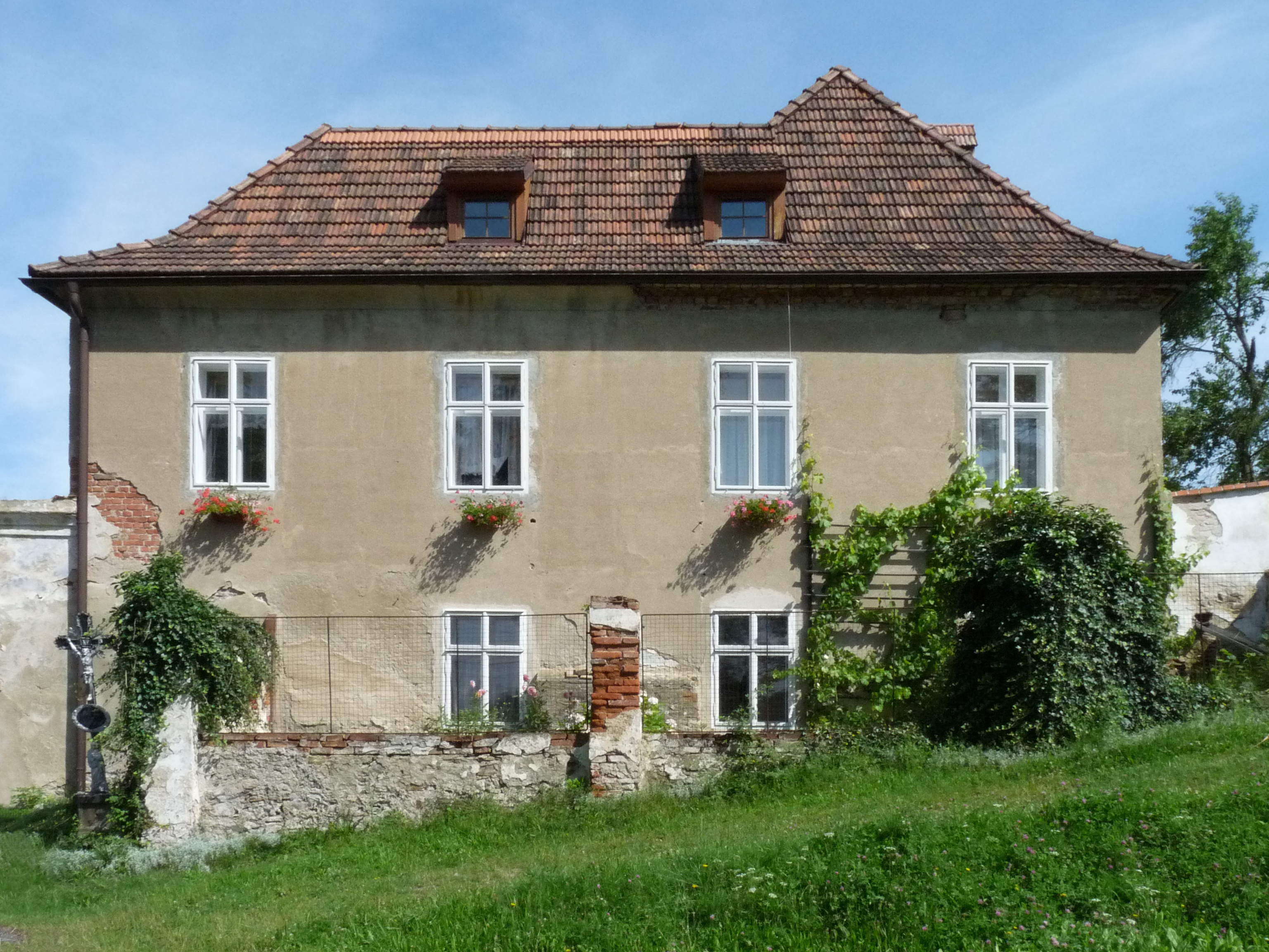 Rectory in Doudleby, České Budějovice district, Czech Republic